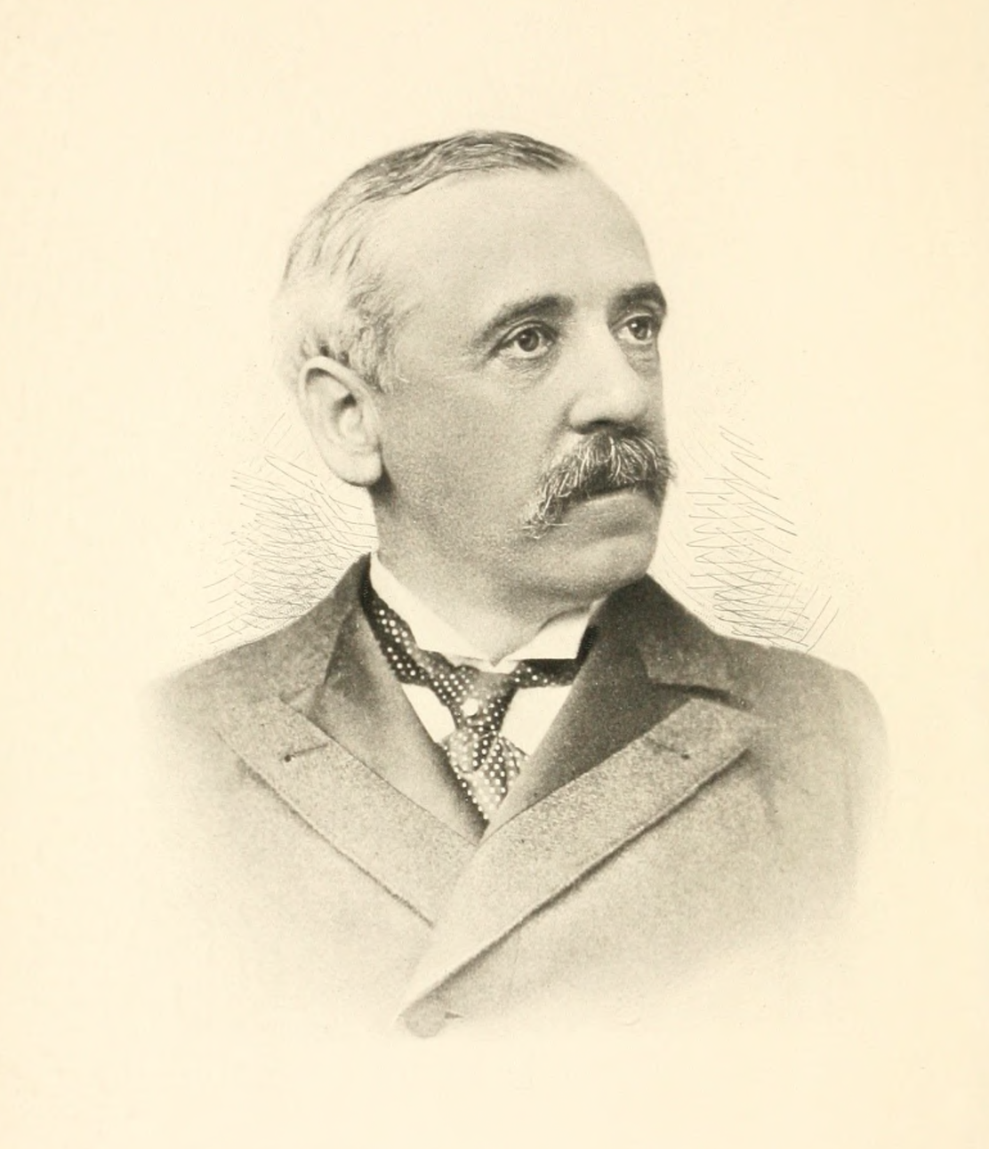 Portrait drawing (c.1896) of Connecticut state legislator, industrialist, and philanthropist Ratcliffe Hicks (1843–1906). Published in the front matter of the privately printed book "Speeches and Public Correspondence of Ratcliffe Hicks," compiled by Cornelius Gardiner (The University Press, Cambridge, 1896). Book is in the public domain on HathiTrust